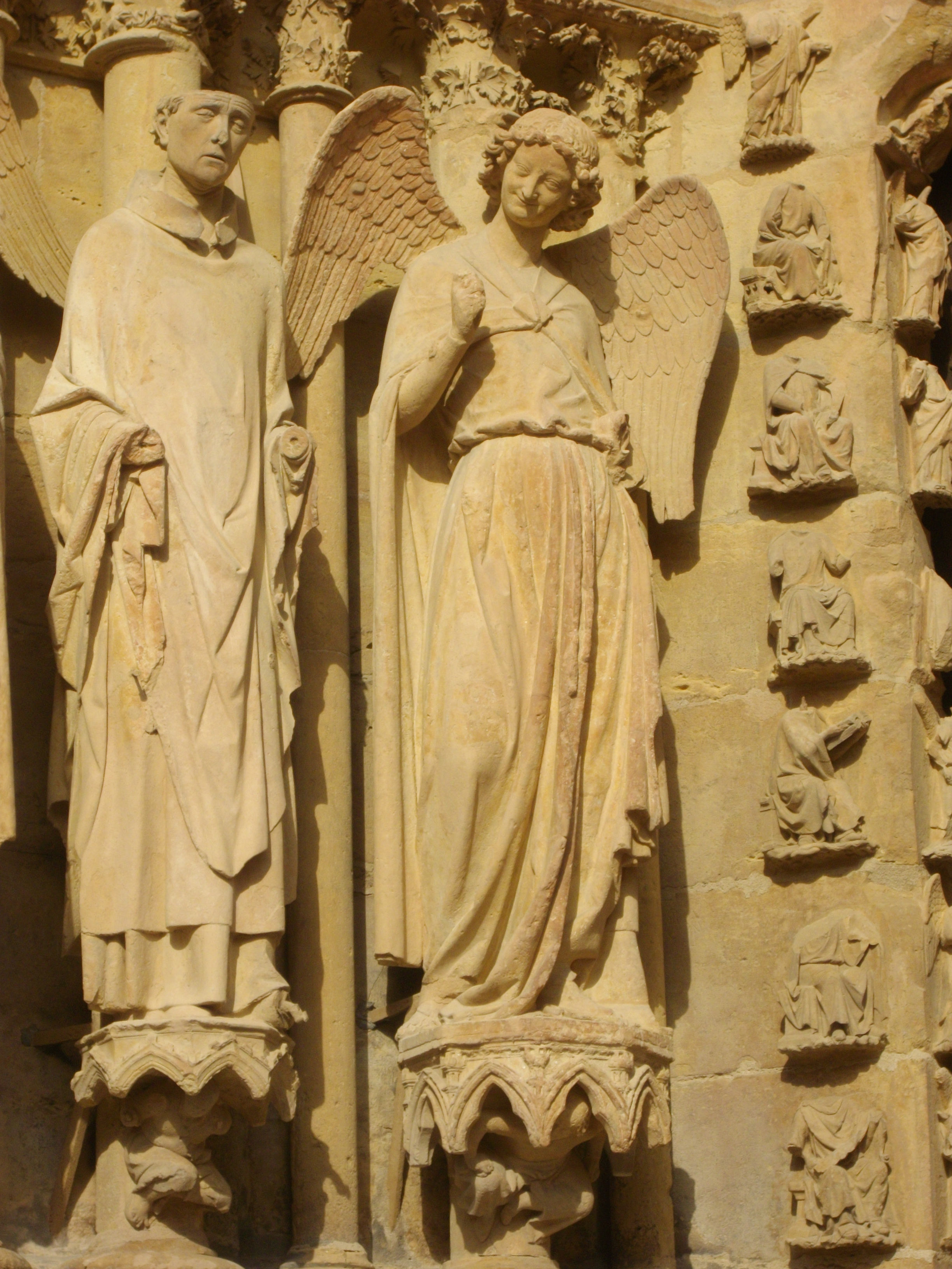 Western facade of Our Lady cathedral of Reims (Marne, France) : Smiling angel .